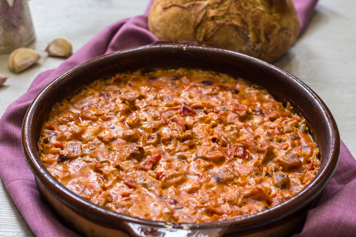 Fërgesë, Albanian dish with meat, peppers, onions, tomatoes and gjizë (a kind of cottage cheese).